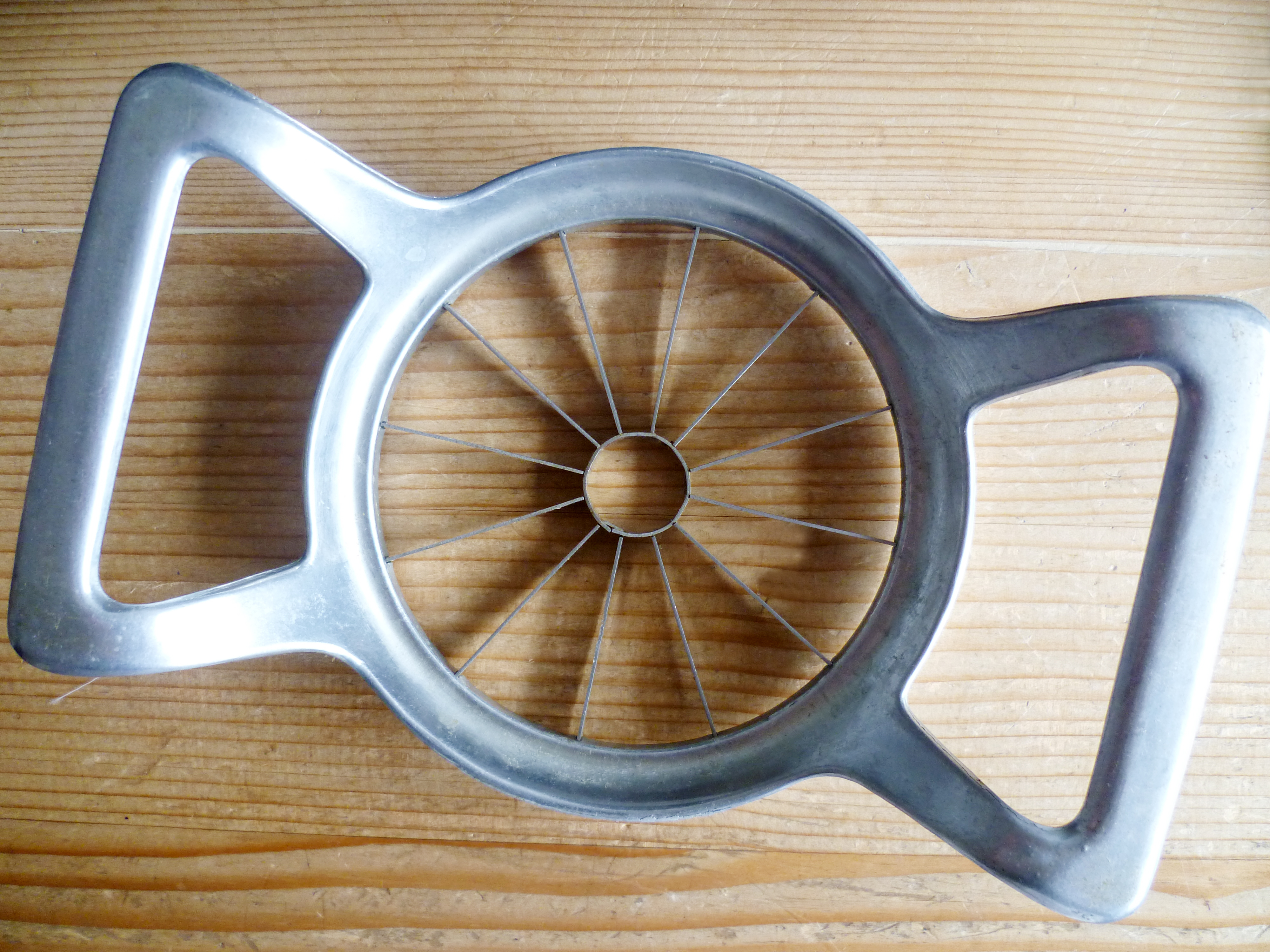 @dailyshoot #ds600: "Make a photo of a tool today. Screwdriver. Pliers. Computer. What's the tool you find most important on a daily basis?" My photograph for this task has already been shot for dailyshoot #534: duo . So I took the contrary: I never use this tool to slice an apple.